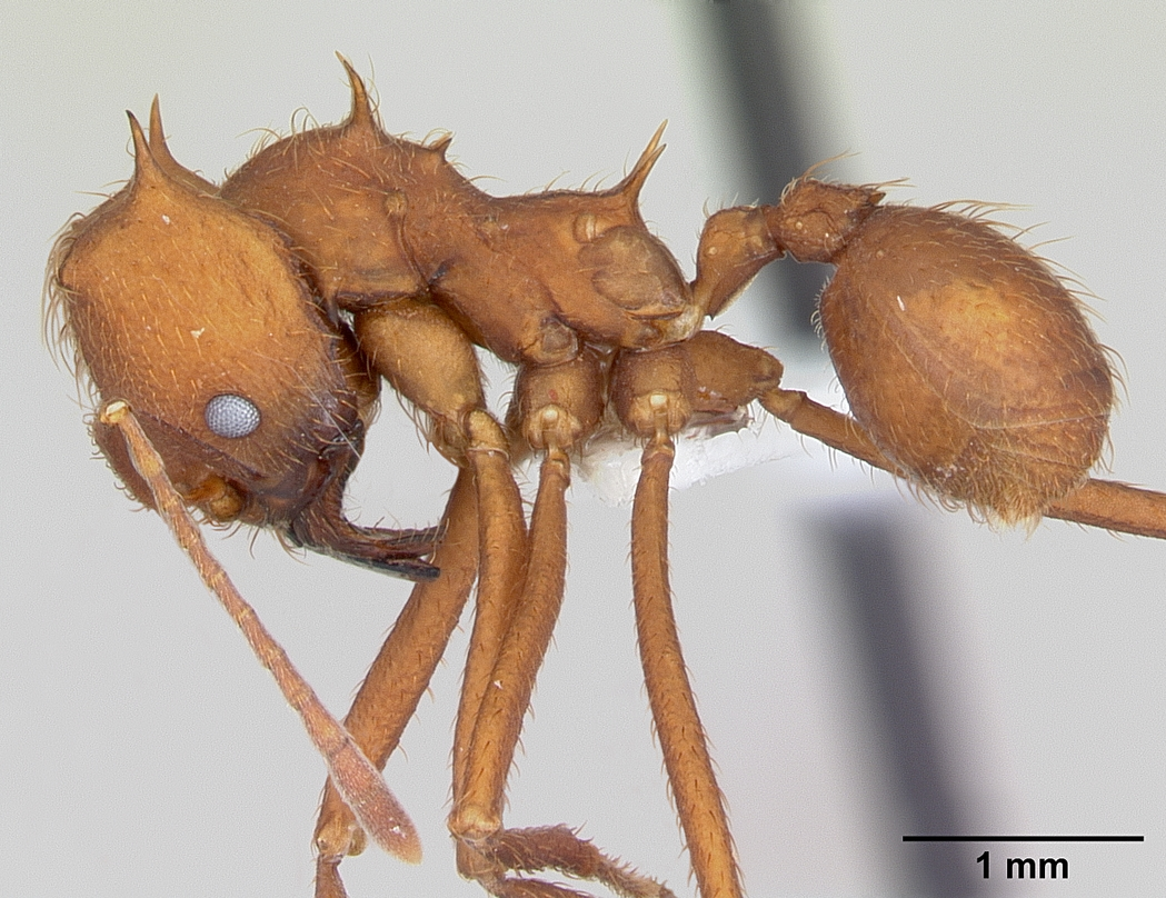 Profile view of ant Atta laevigata specimen casent0173813.